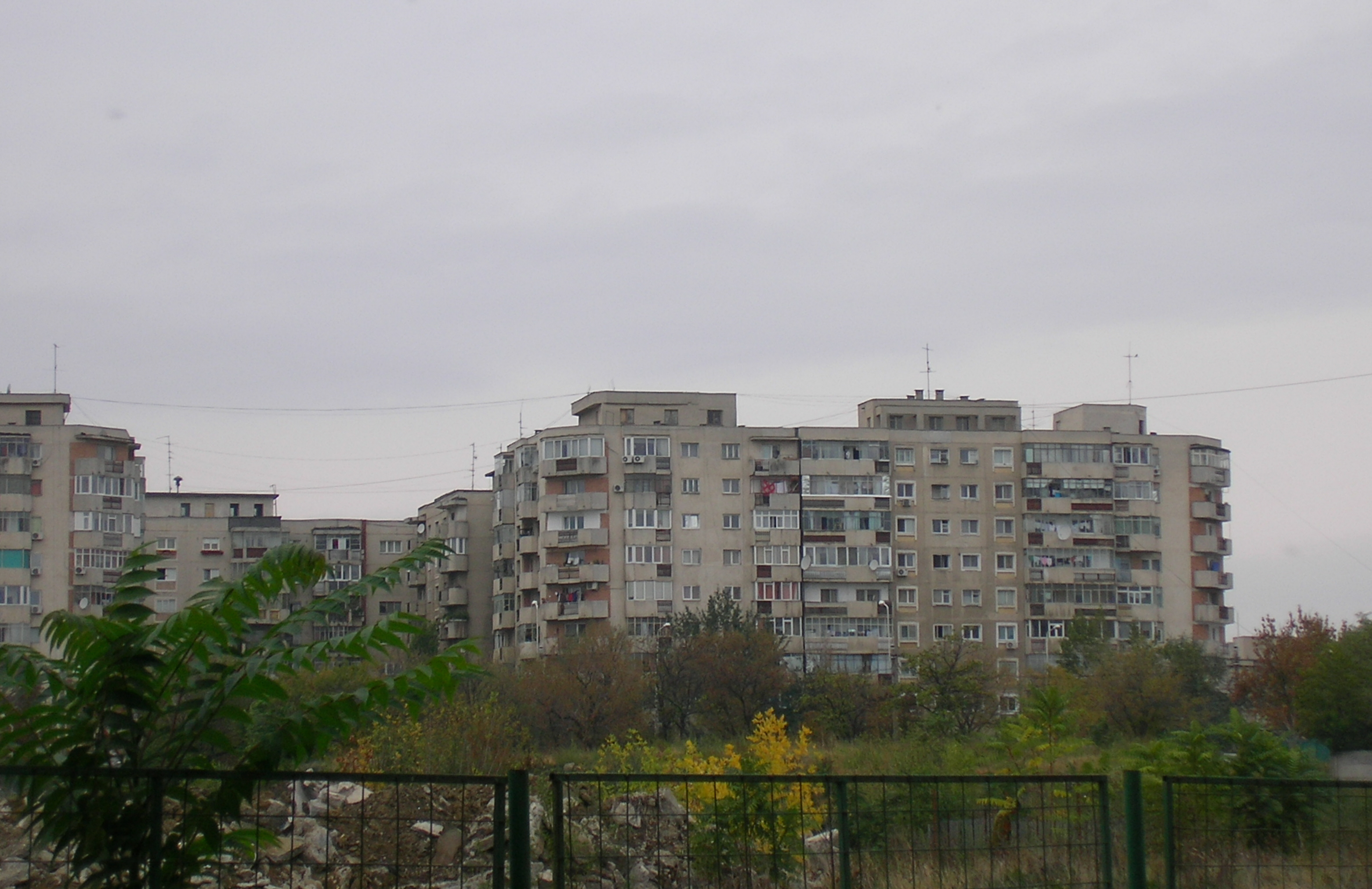 Apartment buildings in Vitan, Bucharest, overlooking the Mihai Bravu Blvd. (as seen from the nearby Miraj Factory)